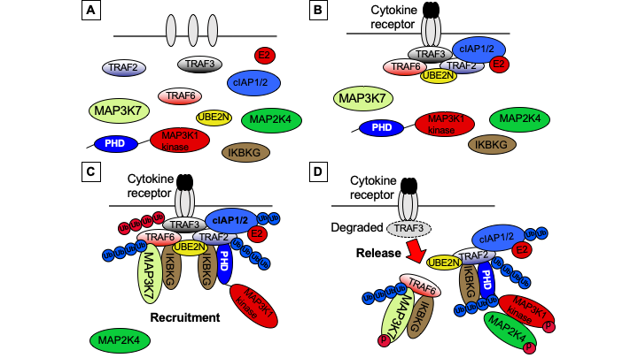 done